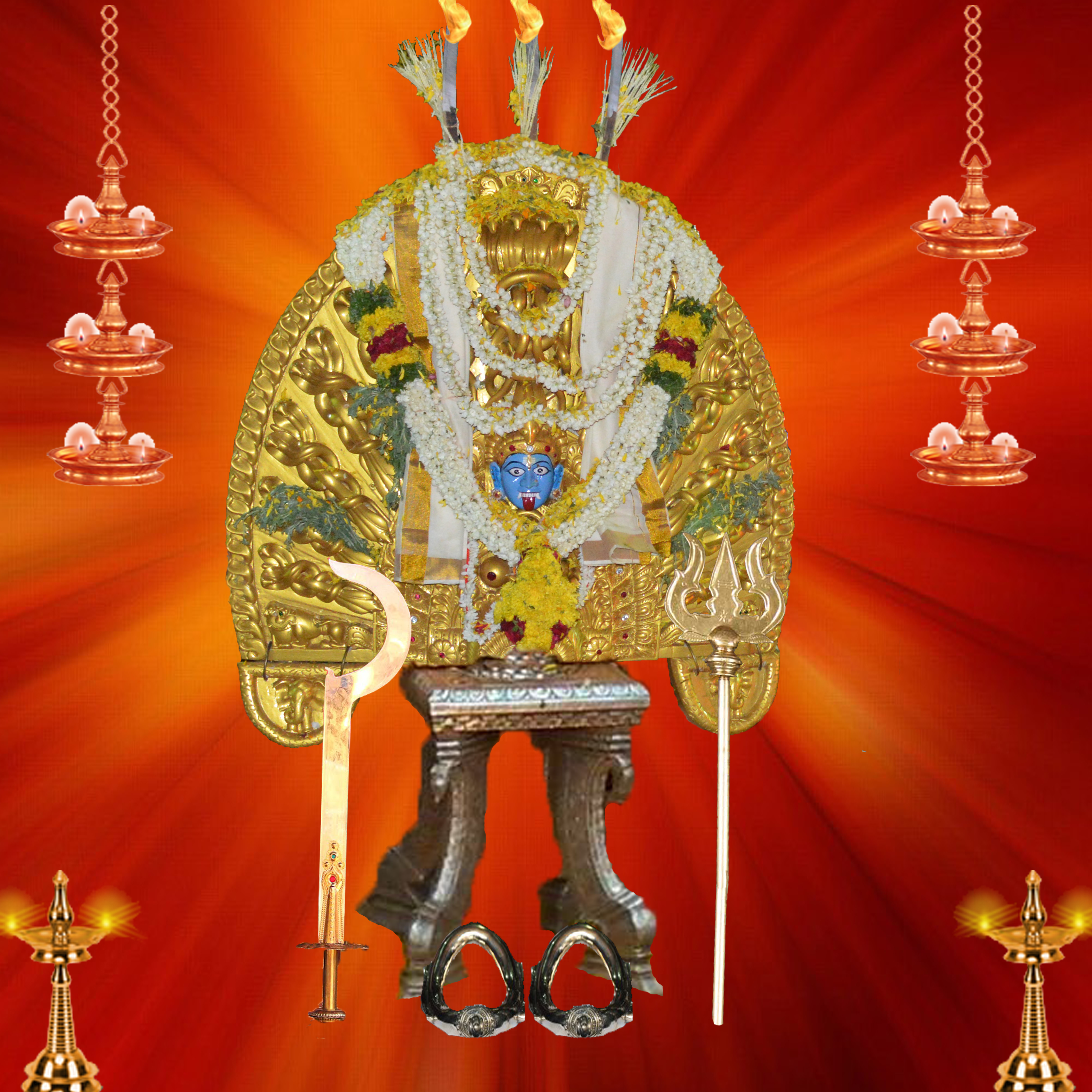 This idol is used for Purathezhunnallippu on Festival time.